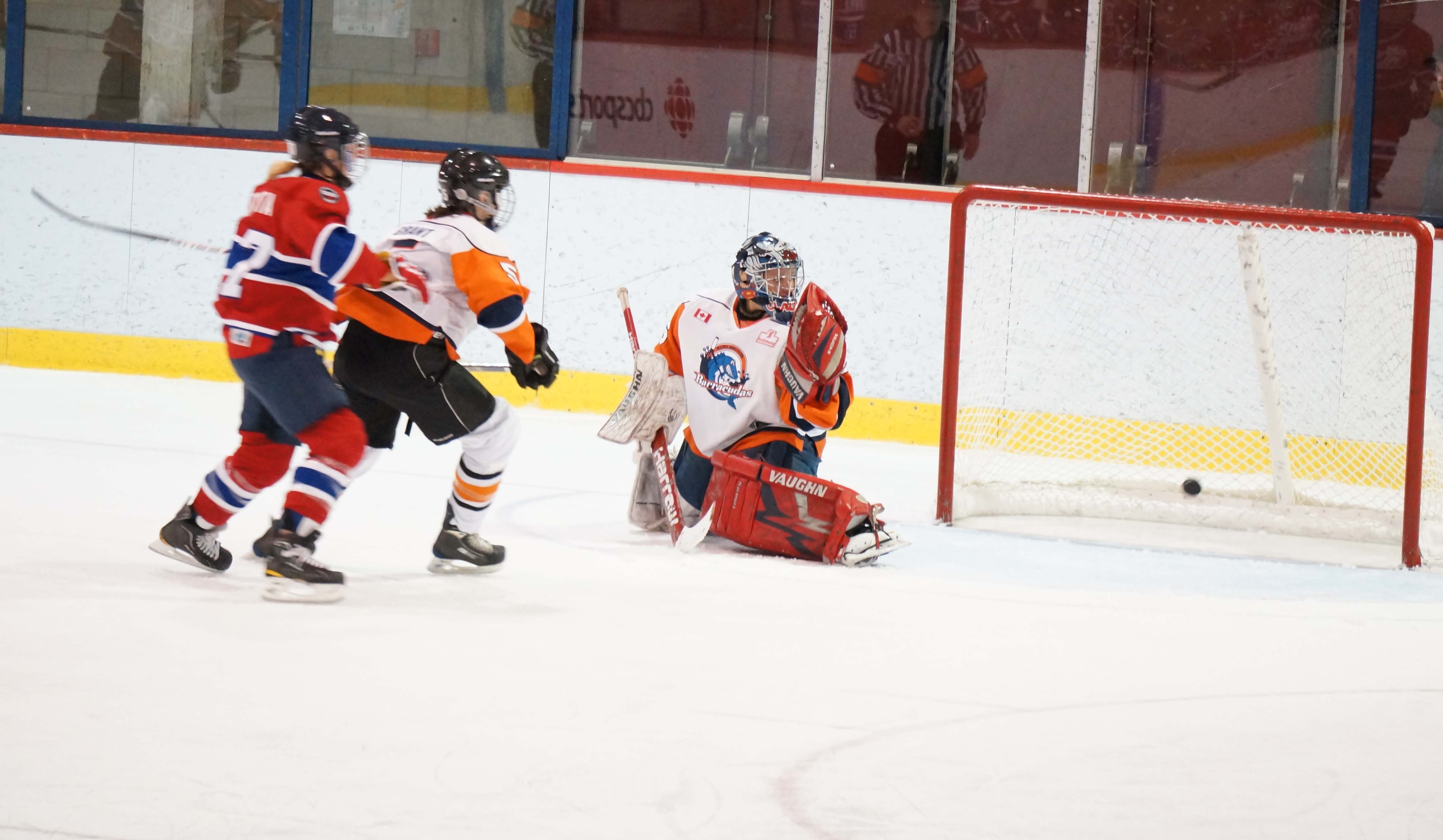 Meghan Agosta , Forward Montreal Stars